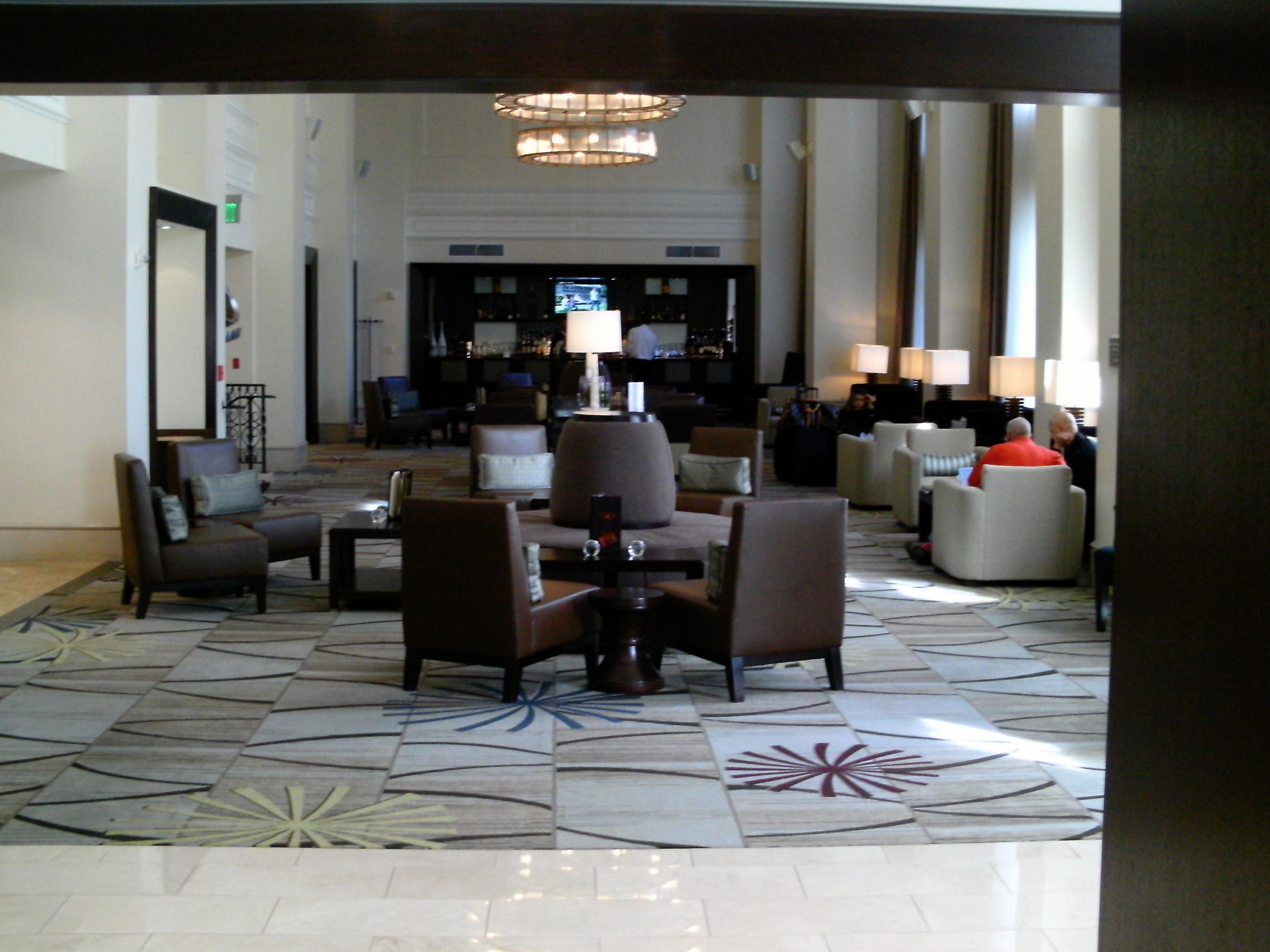 Bar inside Book Cadillac in Detroit